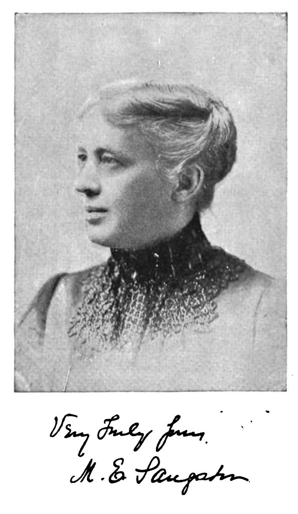 Margaret Elizabeth Sangster (1838-1912) was an American poet, author, and editor. She was popular in the late 19th and early 20th century.